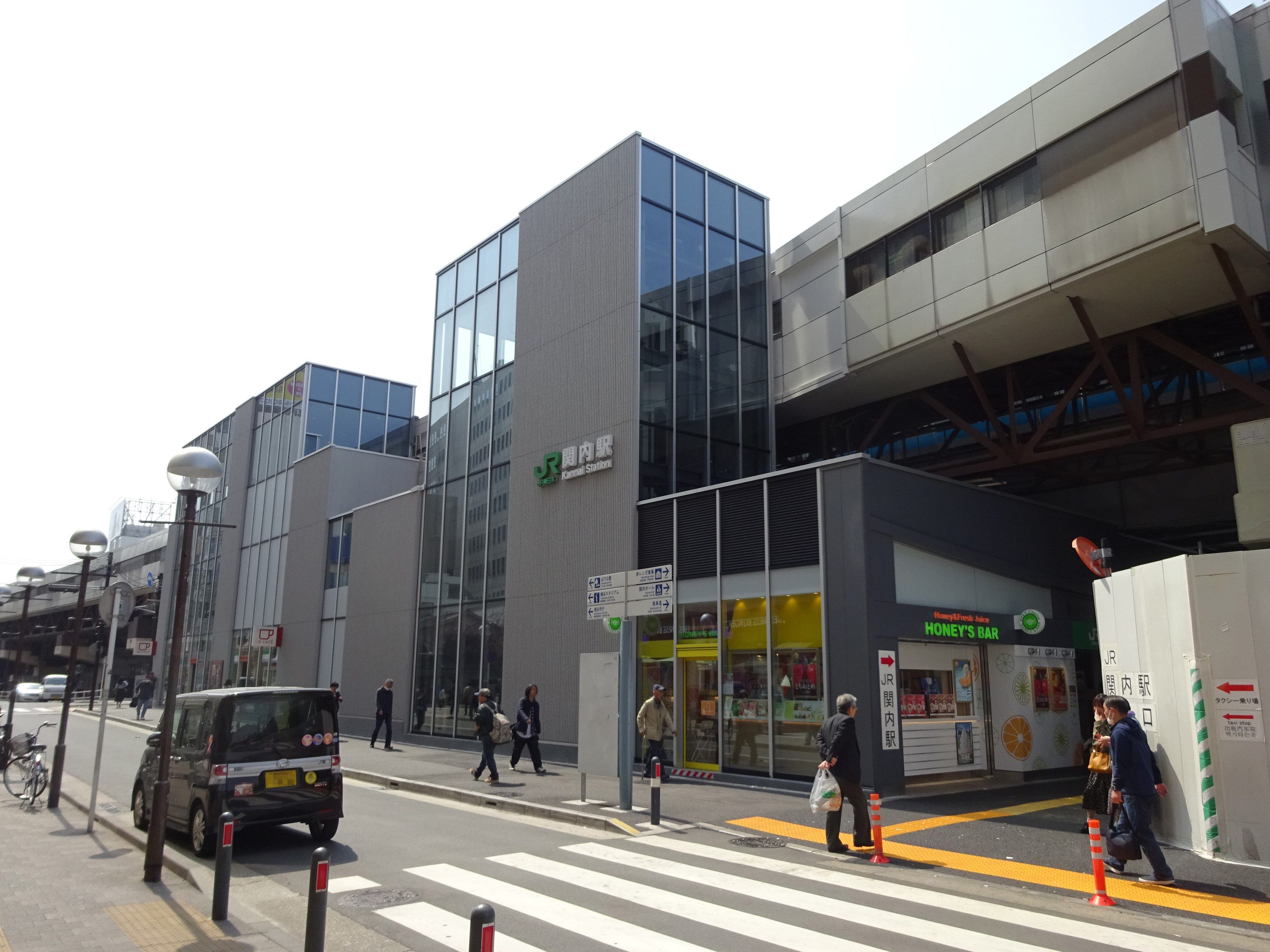 North entrance of Kannai Station